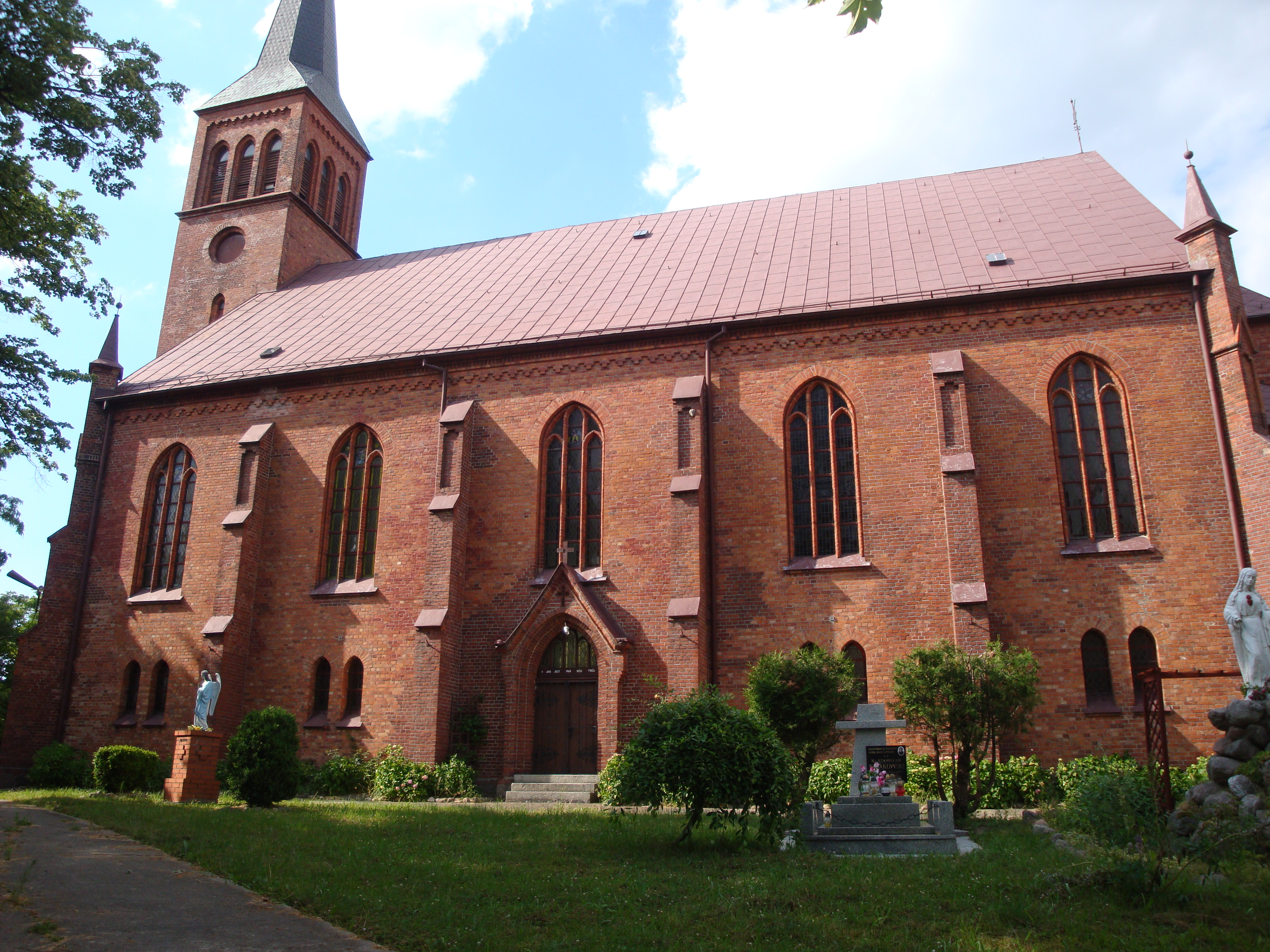 Damno-village in Słupsk County, Poland. Church of St Jude Thaddesus.